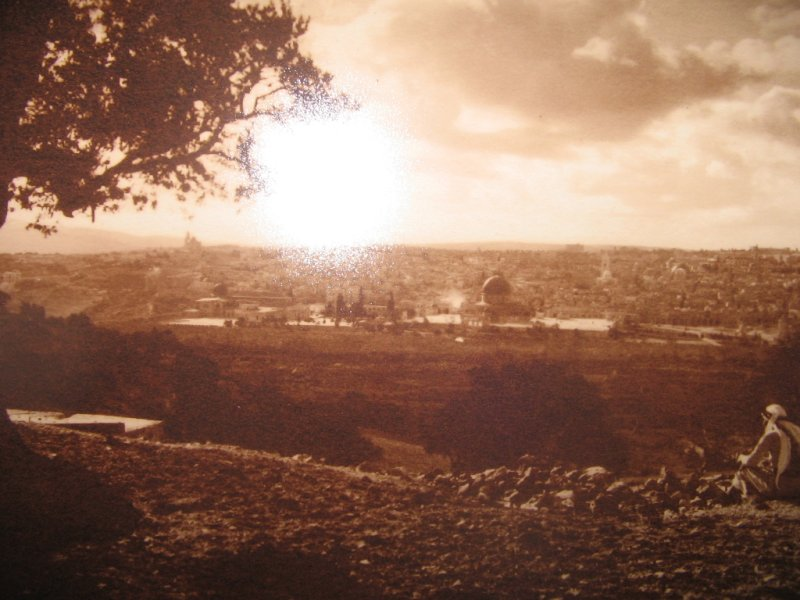 oldest photo of Jerusalem colored